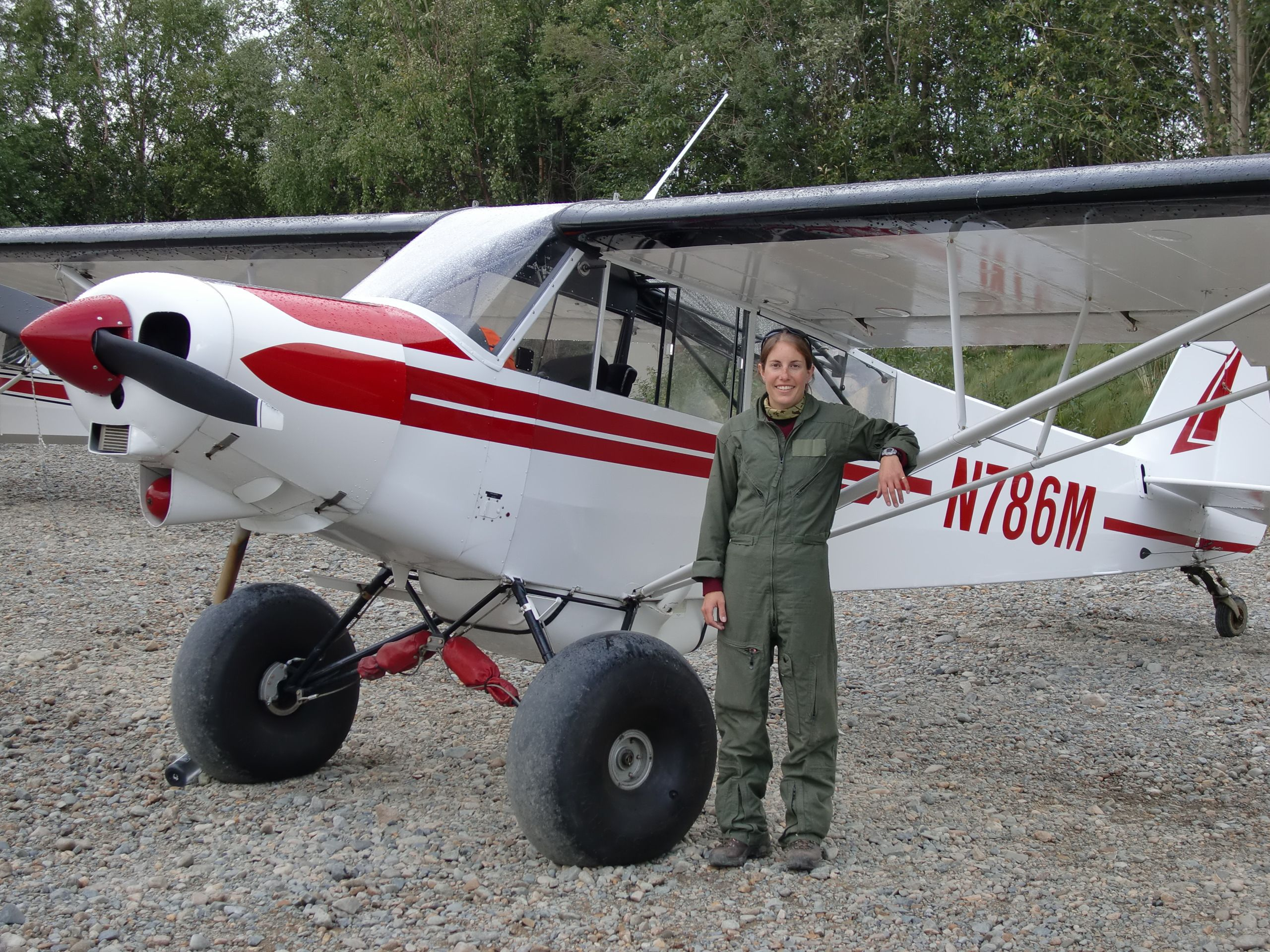 Arctic Refuge Law Enforcement Officer Heather Bartlett stands alongside the Super Cub she flies over wide expanses of Alaska as the U.S. Fish and Wildlife Service’s only female pilot/law enforcement officer. (USFWS)